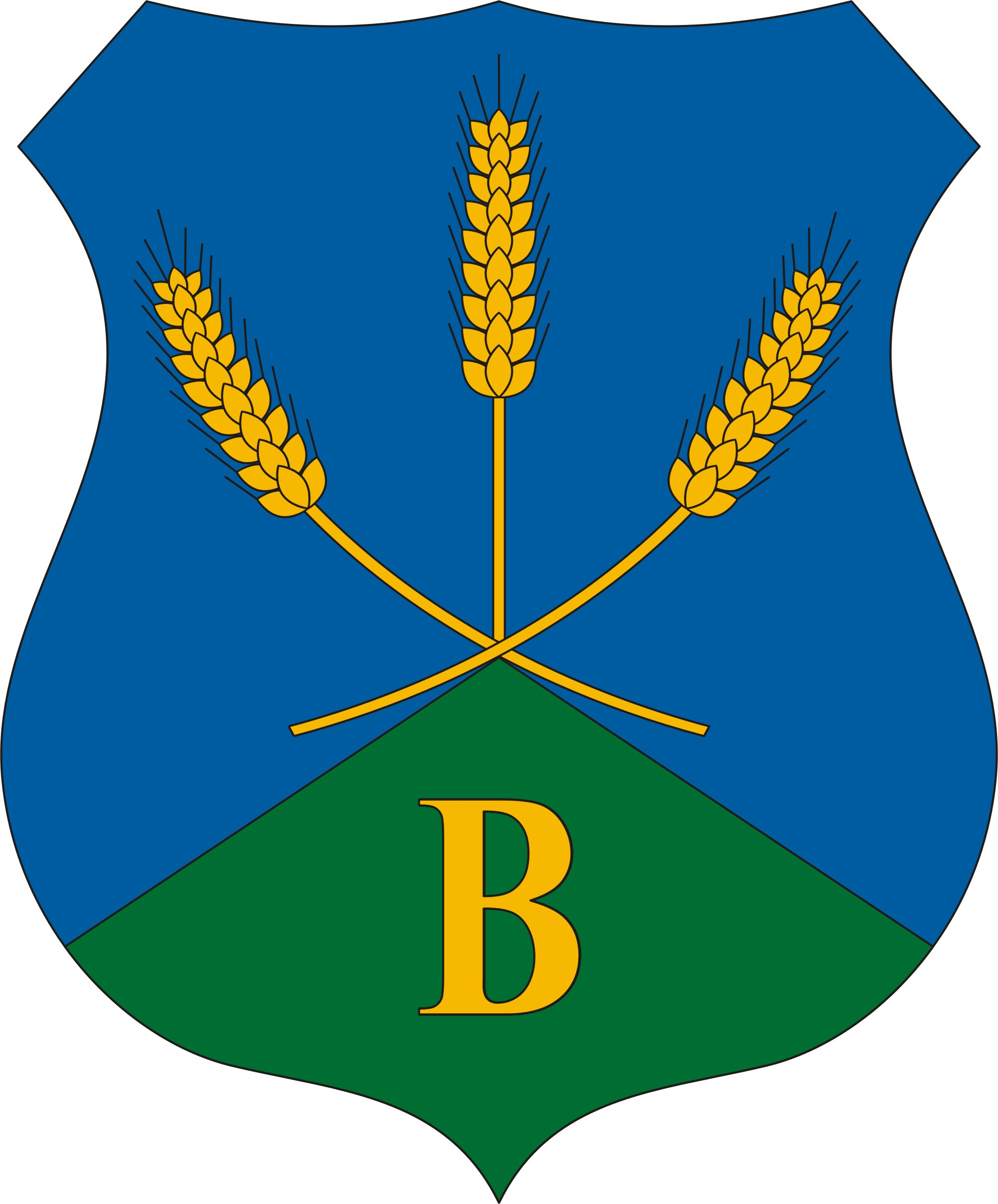 Coat of arms of Ballószög, Hungary